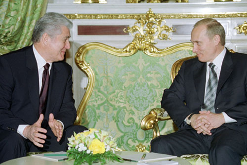 THE GRAND KREMLIN PALACE, MOSCOW. President Putin with Moldovan President Vladimir Voronin.